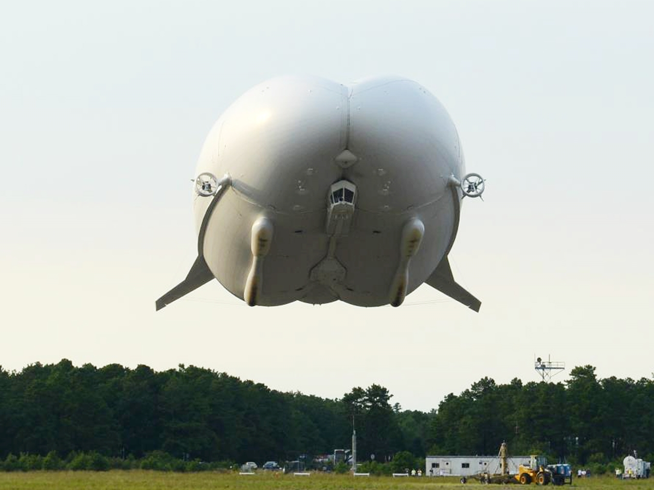 Airlander - Flight Take-off Front